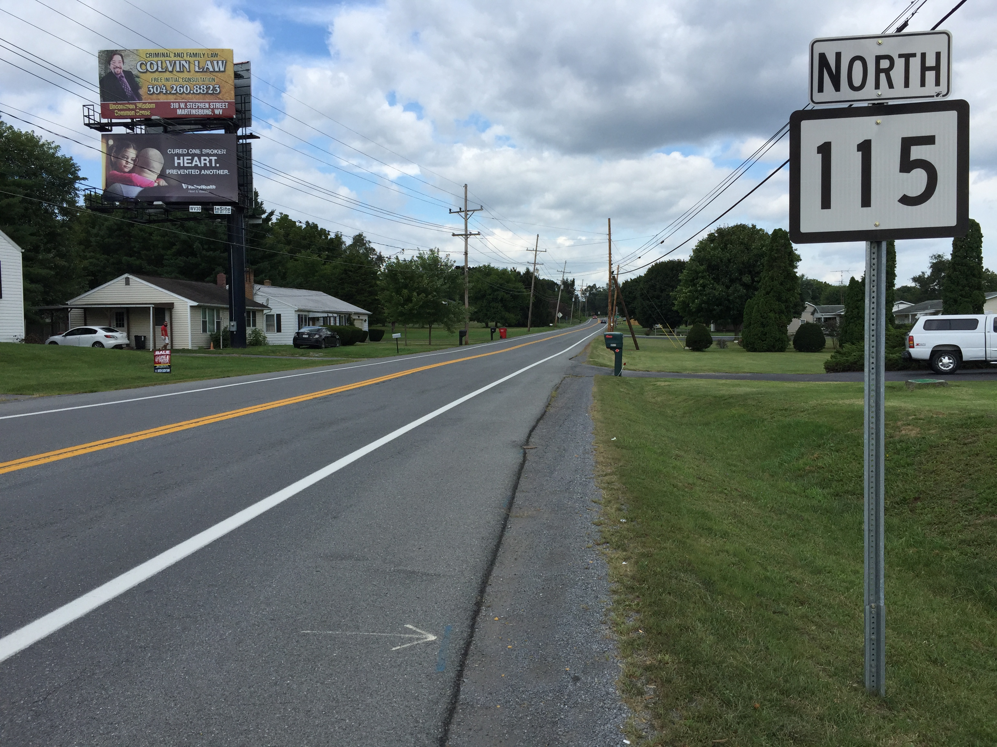 View north along West Virginia State Route 115 (Charles Town Road) between Short Road and Whittlers Way in Baker Heights, Berkeley County, West Virginia